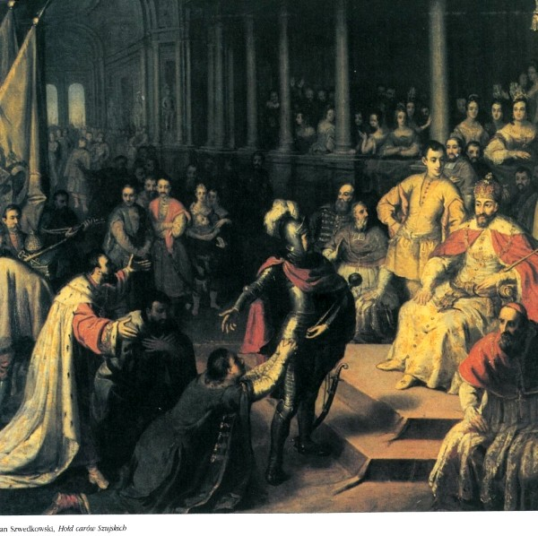 Vasily IV Shuysky with brothers bringing tribute before Sigismund Vasa III